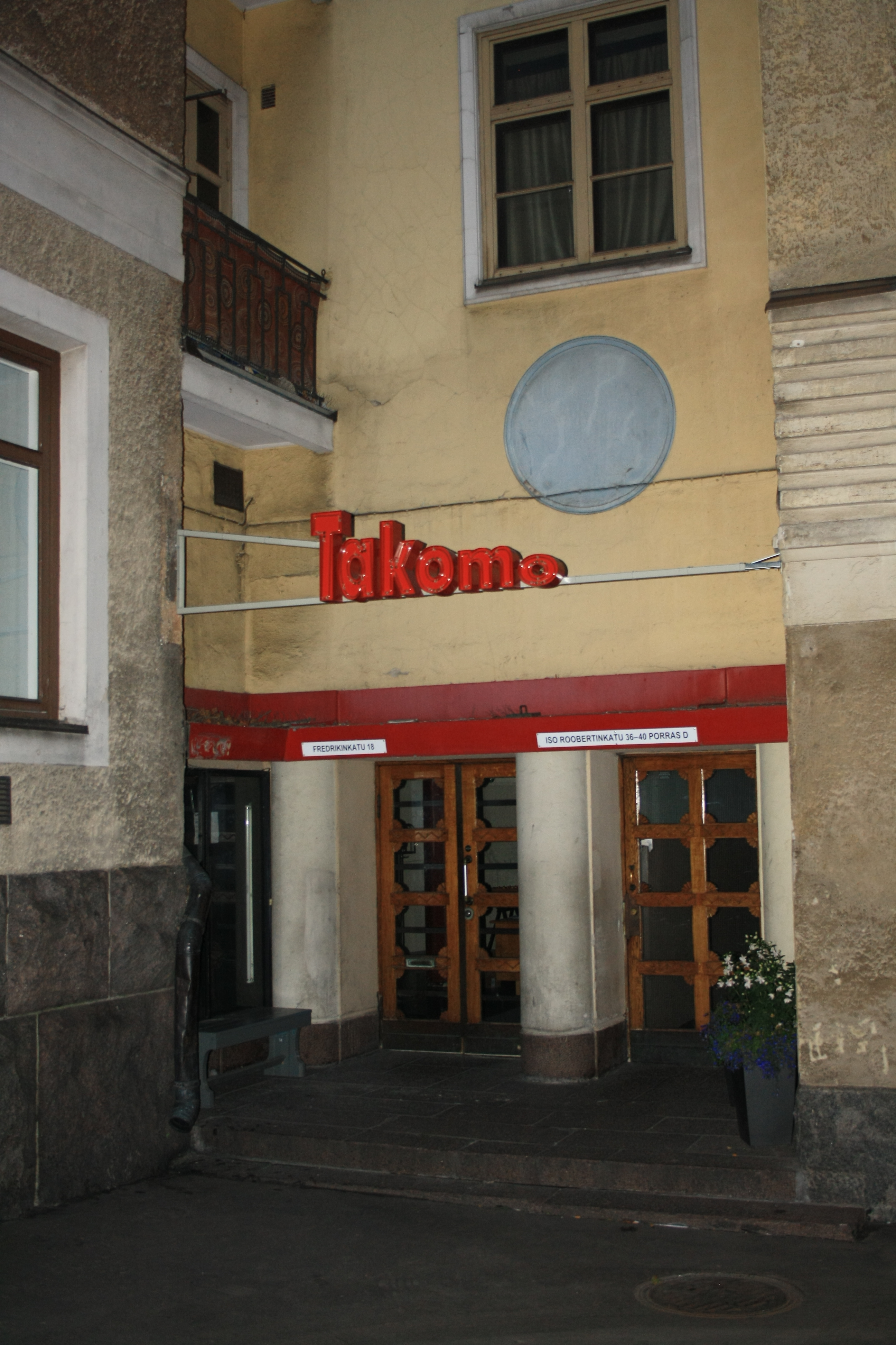 Building of Theater Takomo in Helsinki